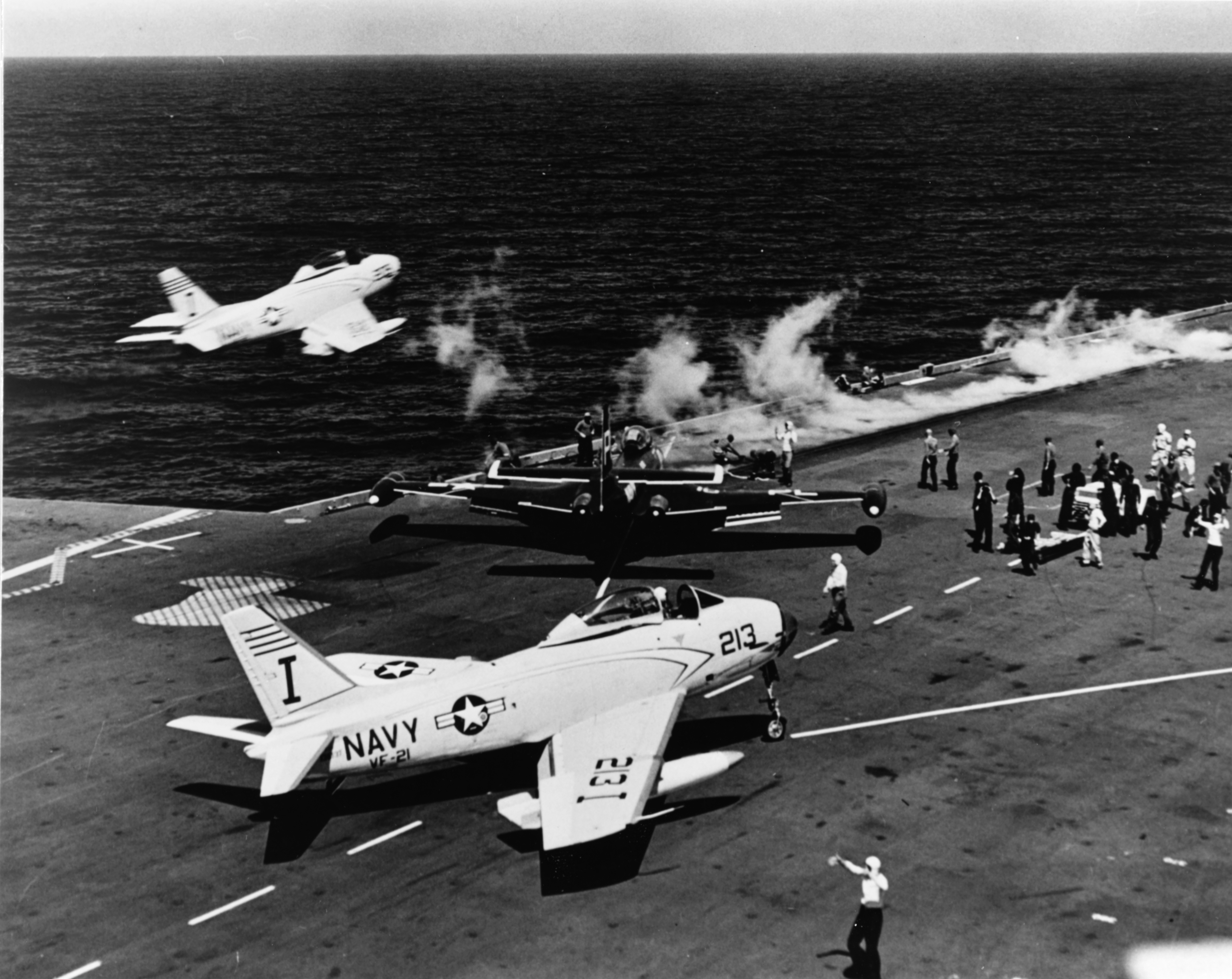 The U.S. aircraft carrier USS Forrestal (CVA-59) catapults a North American FJ-3 Fury from Fighter Squadron 21 (VF-21) "Mach Busters" from a midships catapult, during shakedown operations, 12 March 1956. Another FJ-3 of VF-21 and a McDonnell F2H-2P "Banshee" of Composite Squadron 62 (VC-62) Det. 42 "Fighting Photos" are being readied for launching from the bow catapults. Both squadrons were assigned to Air Task Group 181 (ATG-181) aboard the Forrestal for her shakedown cruise to the Atlantic Ocean from 24 January to 31 March 1956.